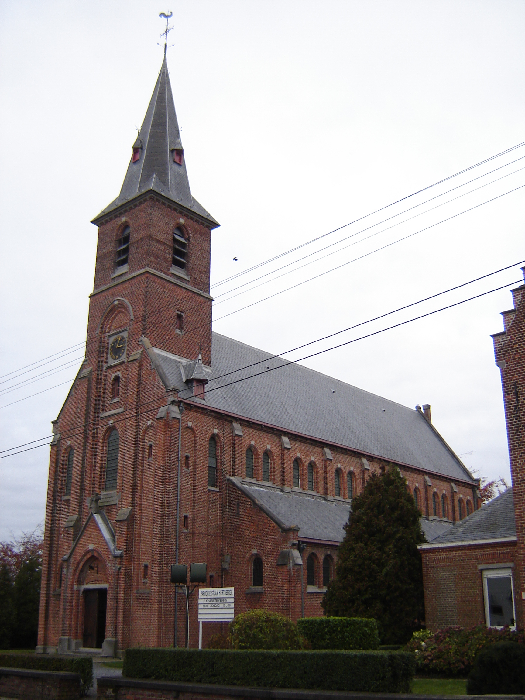 Church of Saint John the Evangelist in Hertsberge. Hertsberge, Oostkamp, West Flanders, Belgium